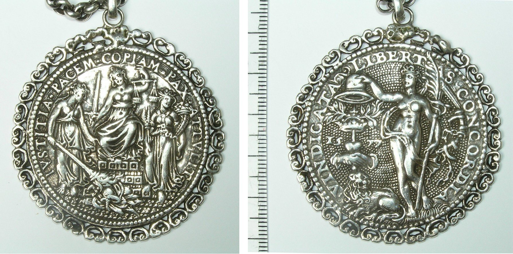 Better picture of my wife's medal